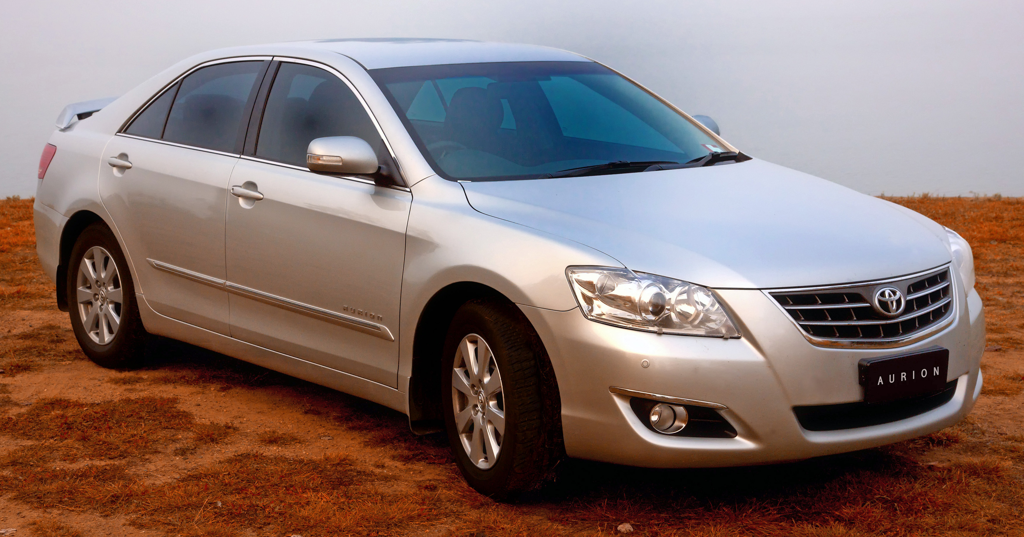 2007 Toyota Aurion Prodigy, photographed in Canberra, Australian Capital Territory, Australia. Taken with Canon EOS-1Ds Mark II.